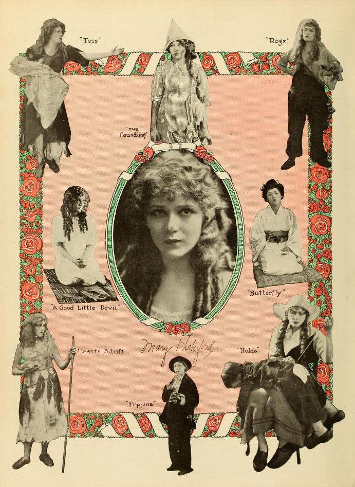 Advertisement in Moving Picture World